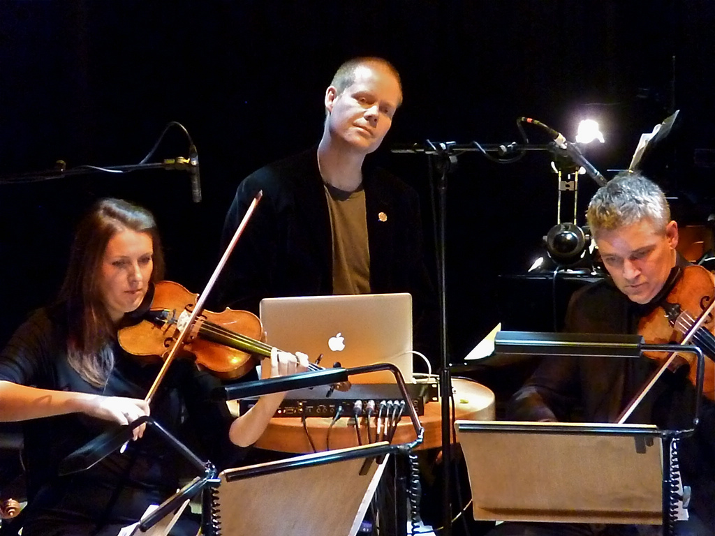 Composer Max Richter at Cadogan Hall, London. September 17, 2010.